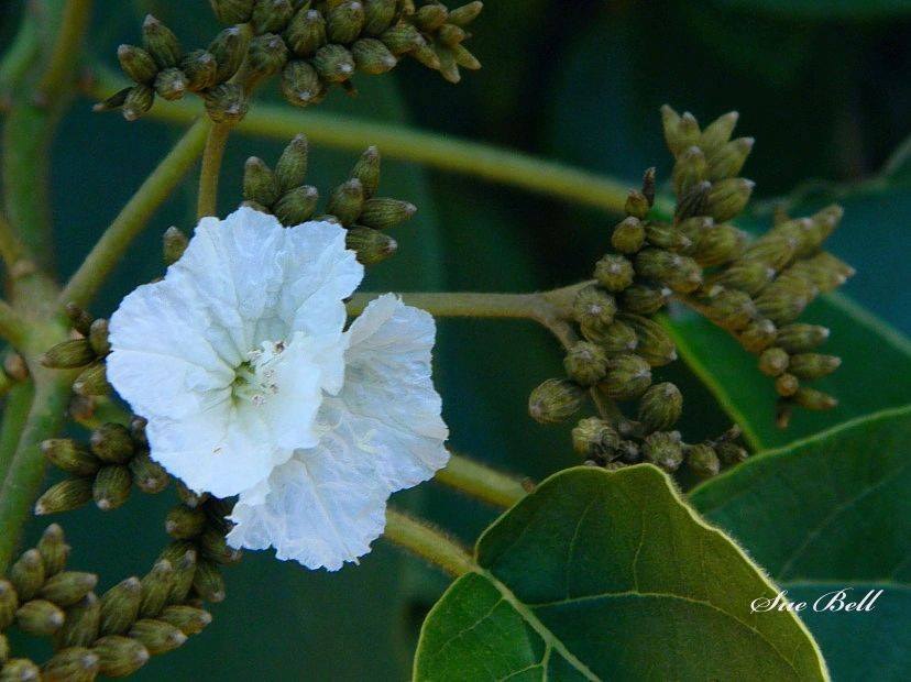 Flower and buds of Cordia africana Lam. - Harare Botanical Garden, Zimbabwe